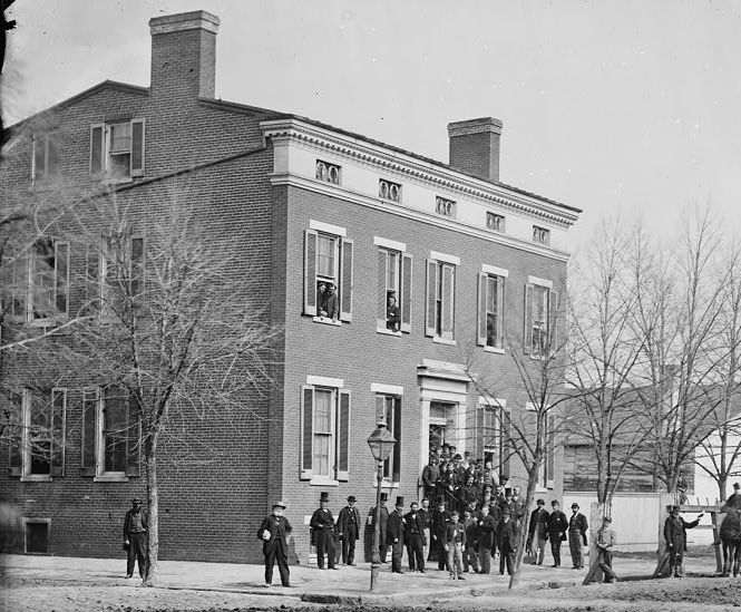 Photograph of Washington, 1862-1865, the capital at war. [Steeman-Ray House, 1725 F Street N.W.]